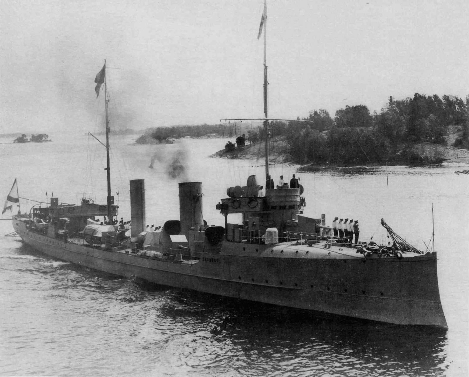 Imperial Russian destroyer Украйна (Ukrayna).